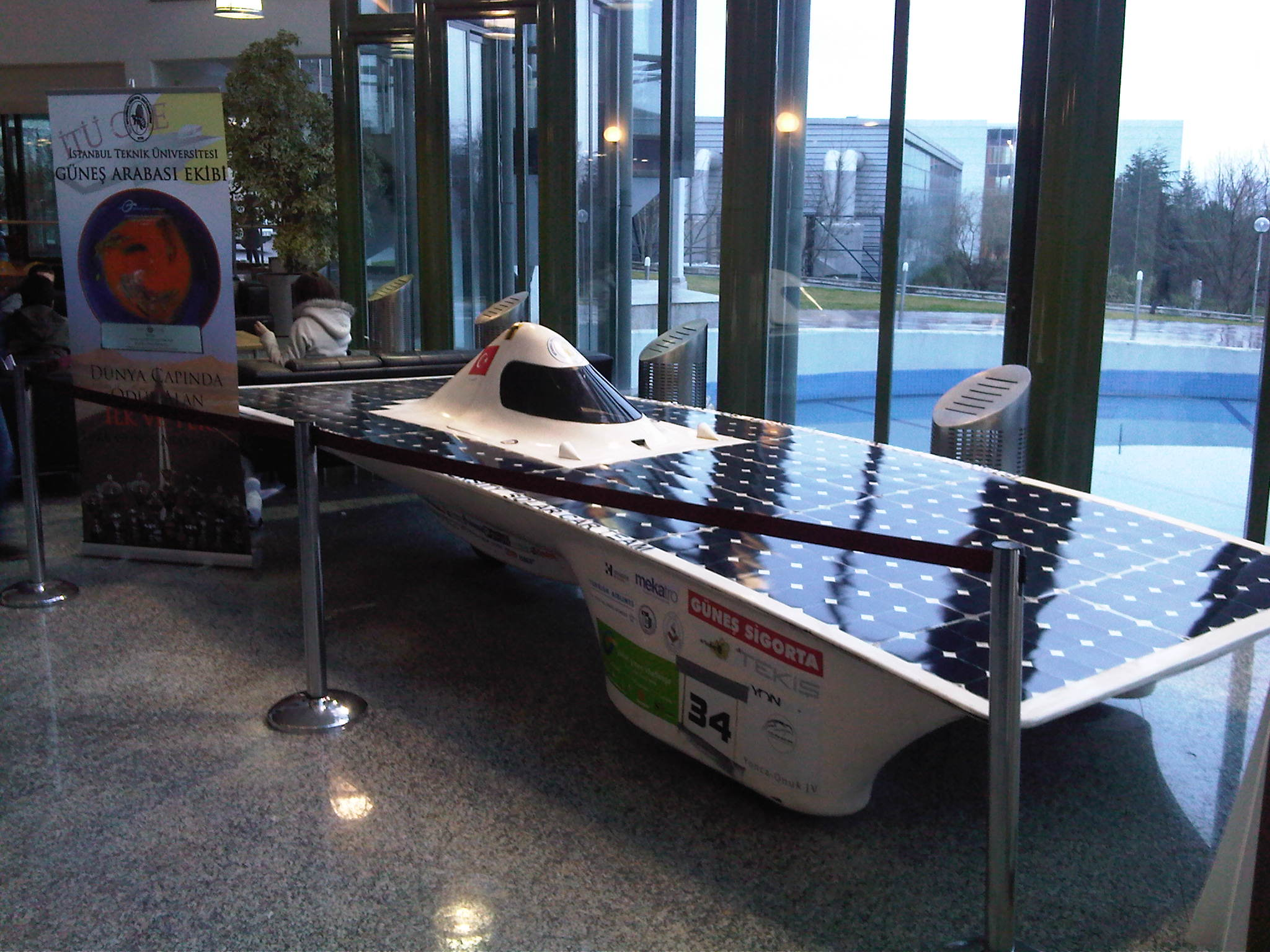 2010 formula-g